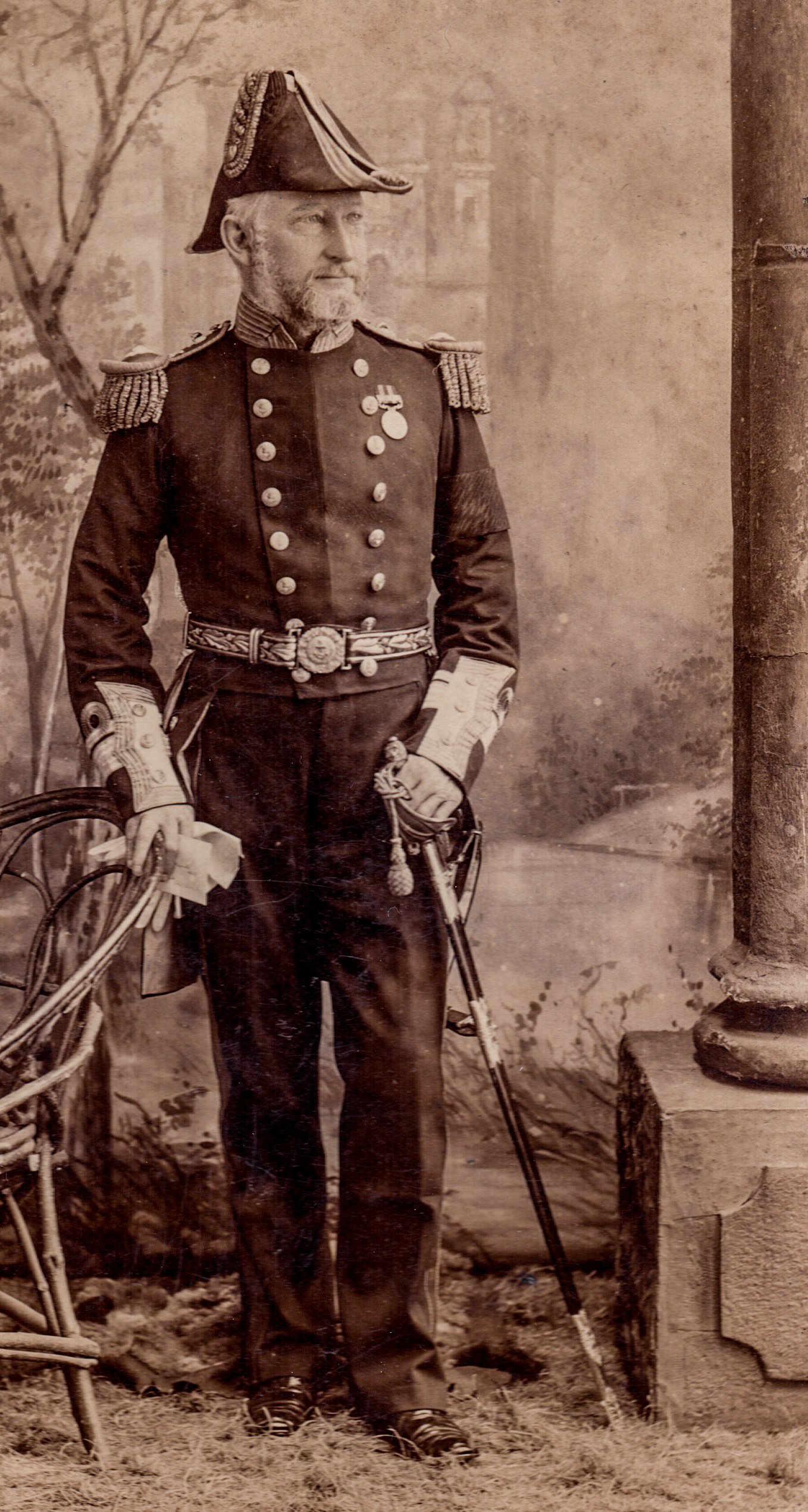 Photograph from Knowles Family archive